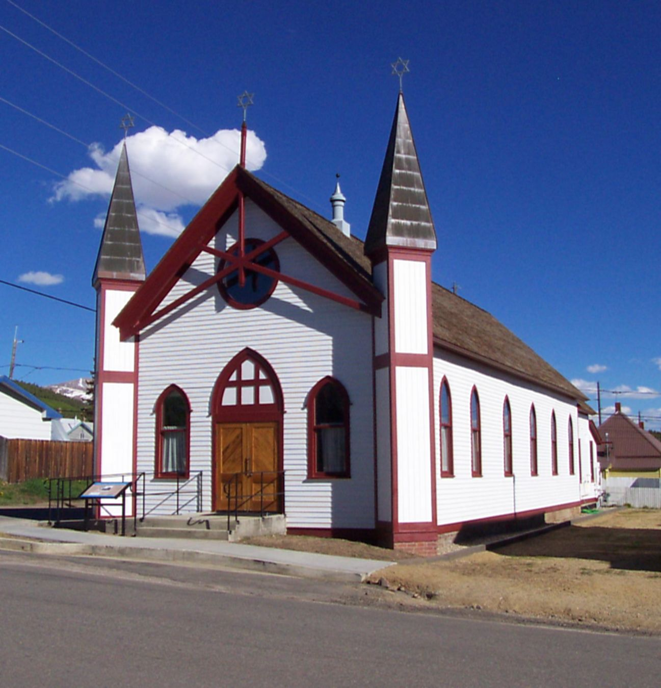 Temple Israel in Leadville, CO, from the northwest in June, 2011